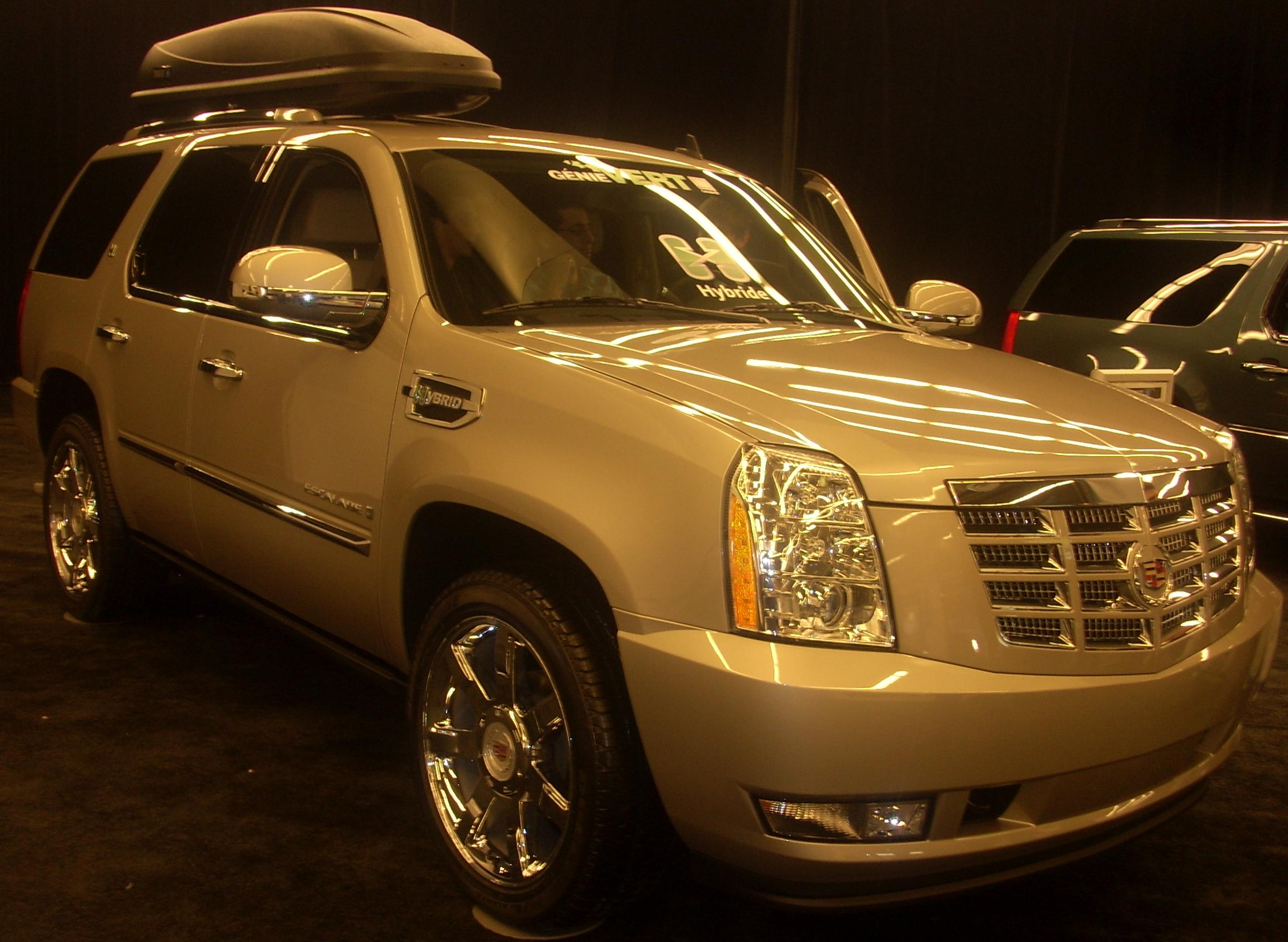 2009 Cadillac Escalade Hybrid photographed at the 2009 Montreal International Auto Show.